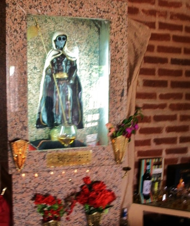 Altar with statue for San La Muerte in central Argentina.